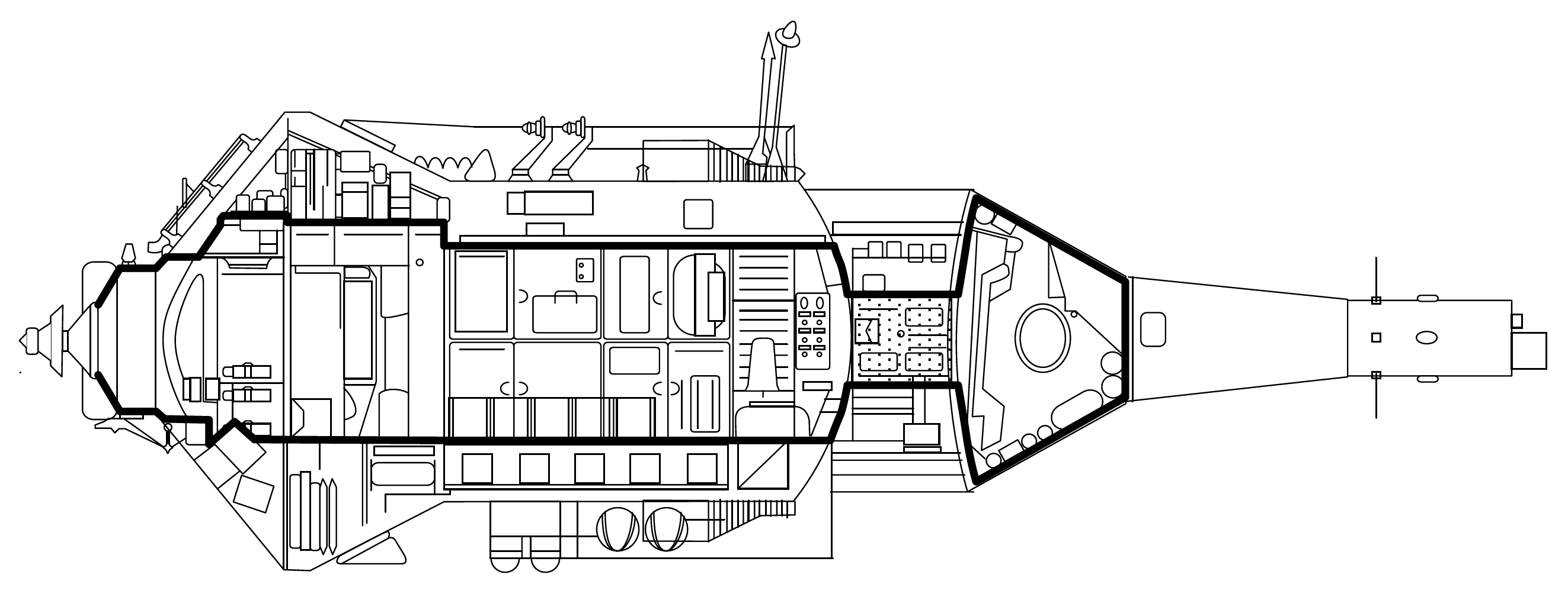 A diagram showing a cutaway of the Soviet TKS crew delivery/cargo spacecraft. Details are conjectural. The broad black line outlines the vehicle’s pressurised compartments. (WP:DUBIOUS, see File talk:TKS cutaway.png#Pressurized volume) A tunnel (stippled) connects the FGB and VA capsule.